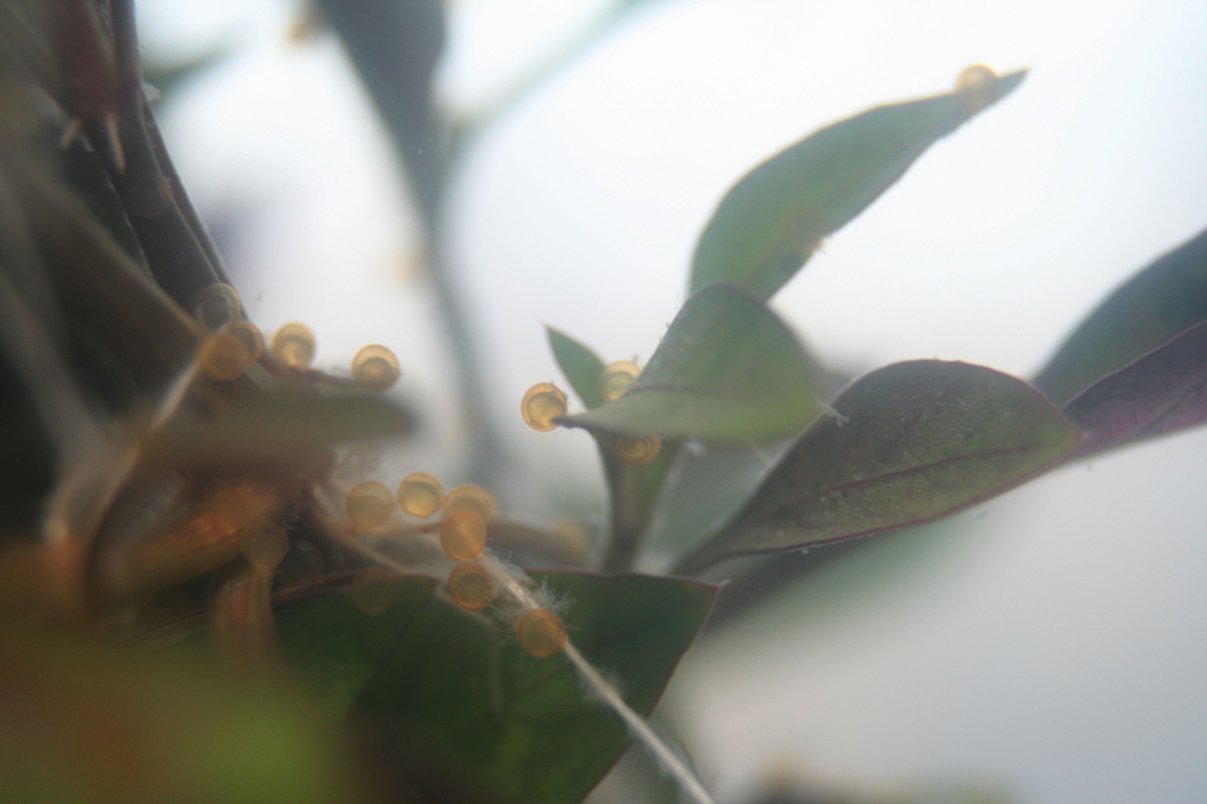 goldfish eggs showing cell division